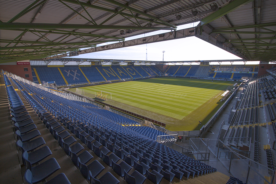 NAC Breda's Rat Verlegh stadium in Breda, October 26 2013